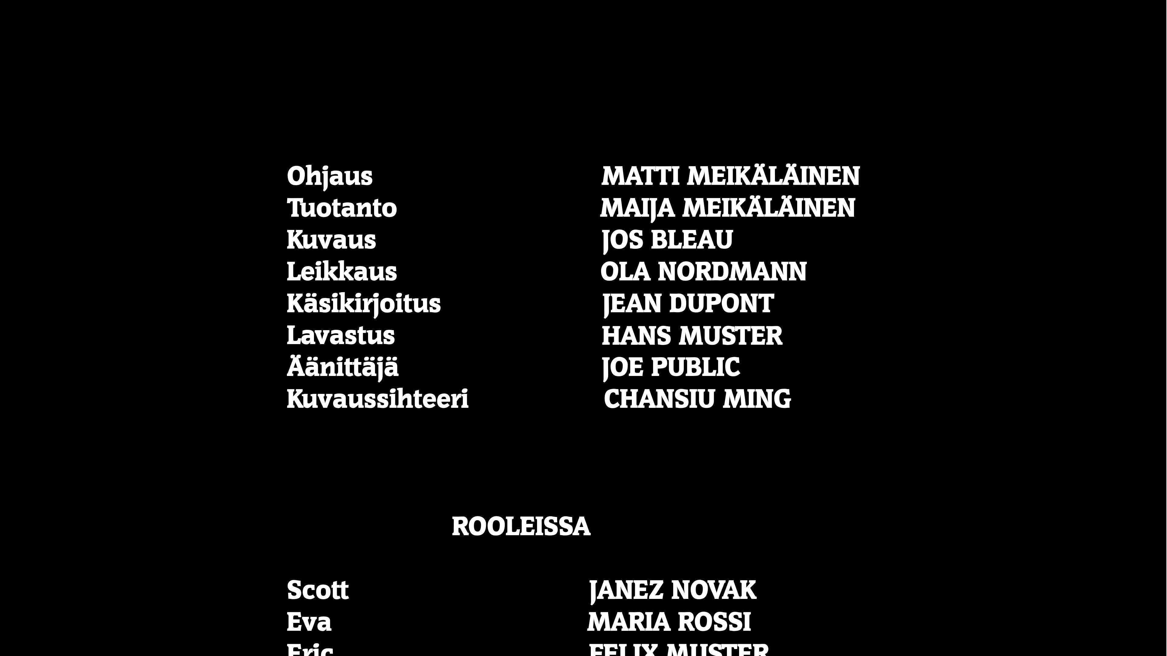 Example motion picture closing credits (Finnish language).